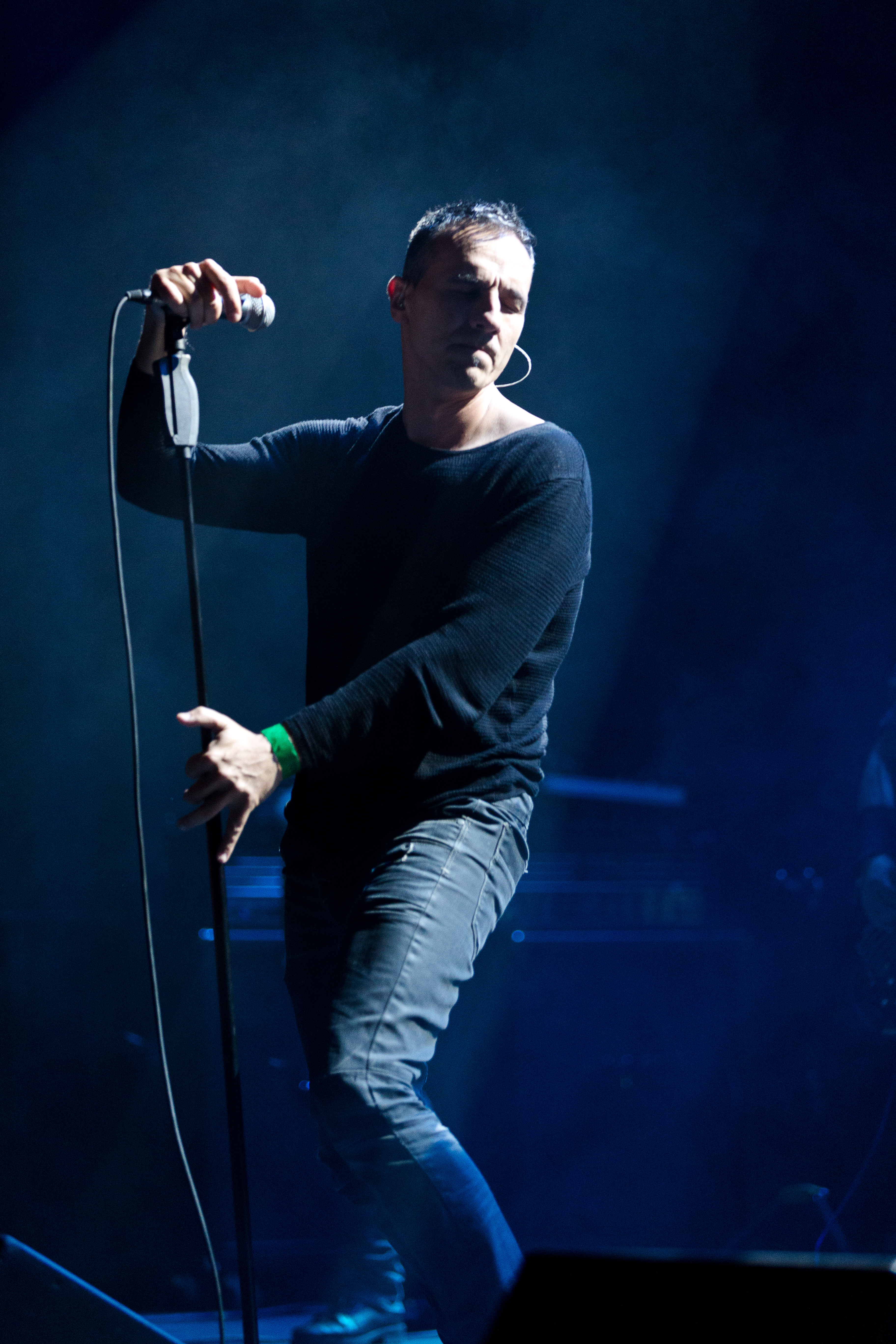 The Spanish doom metal band Autumnal at the 25. Wave-Gotik-Treffen 2016 in Leipzig/Germany.